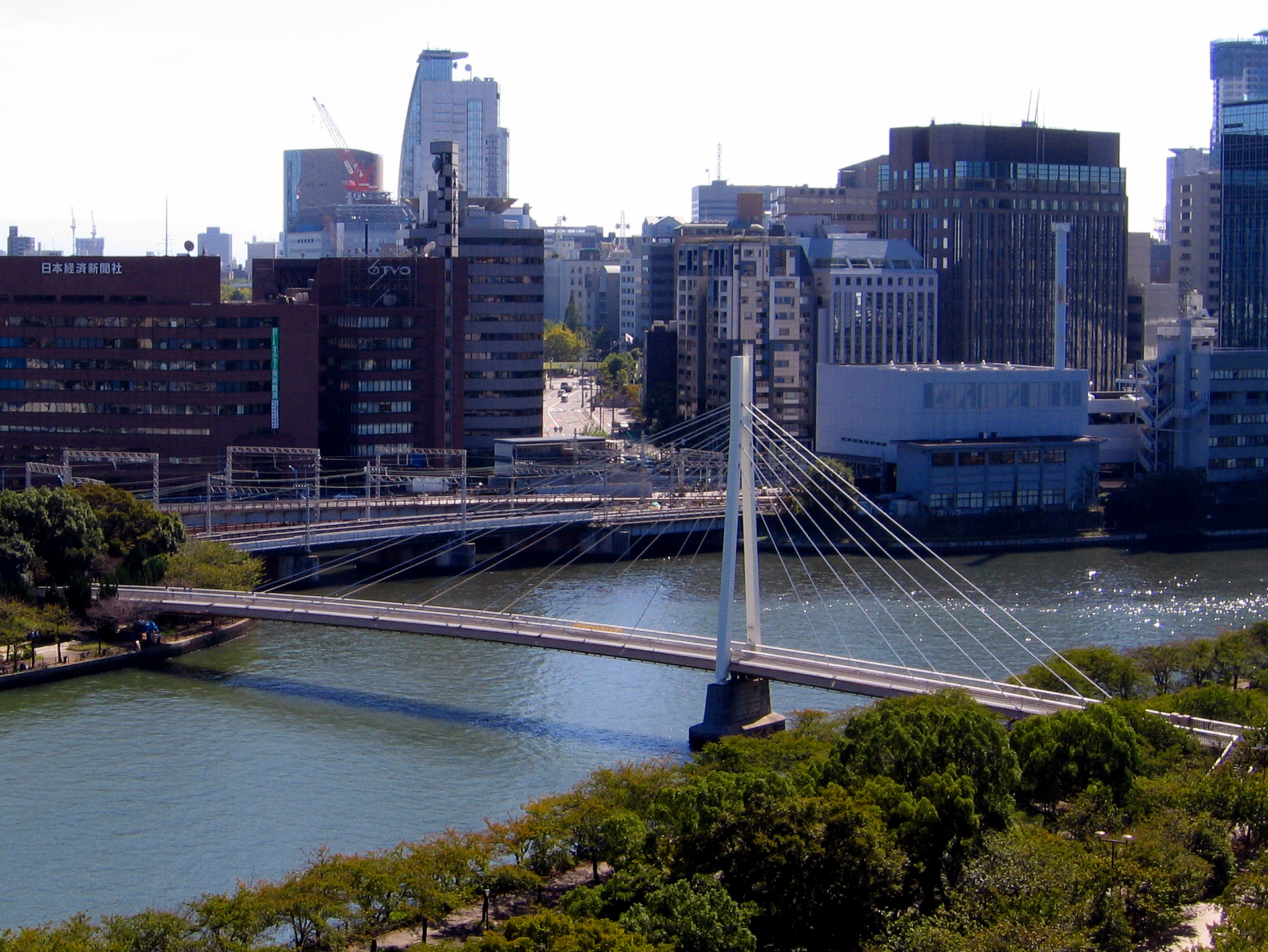 This photograph is the "Kawasaki bridge" which carries out the whereabouts to Kita-ku, Osaka-shi. Those who search for more detailed information need to look at "川崎橋".